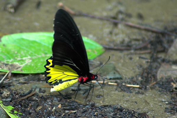 Mudpuddling Common Birdwing (Troides helena). Taken by Arif Siddiqui. Posted on commons with kind permission of author.